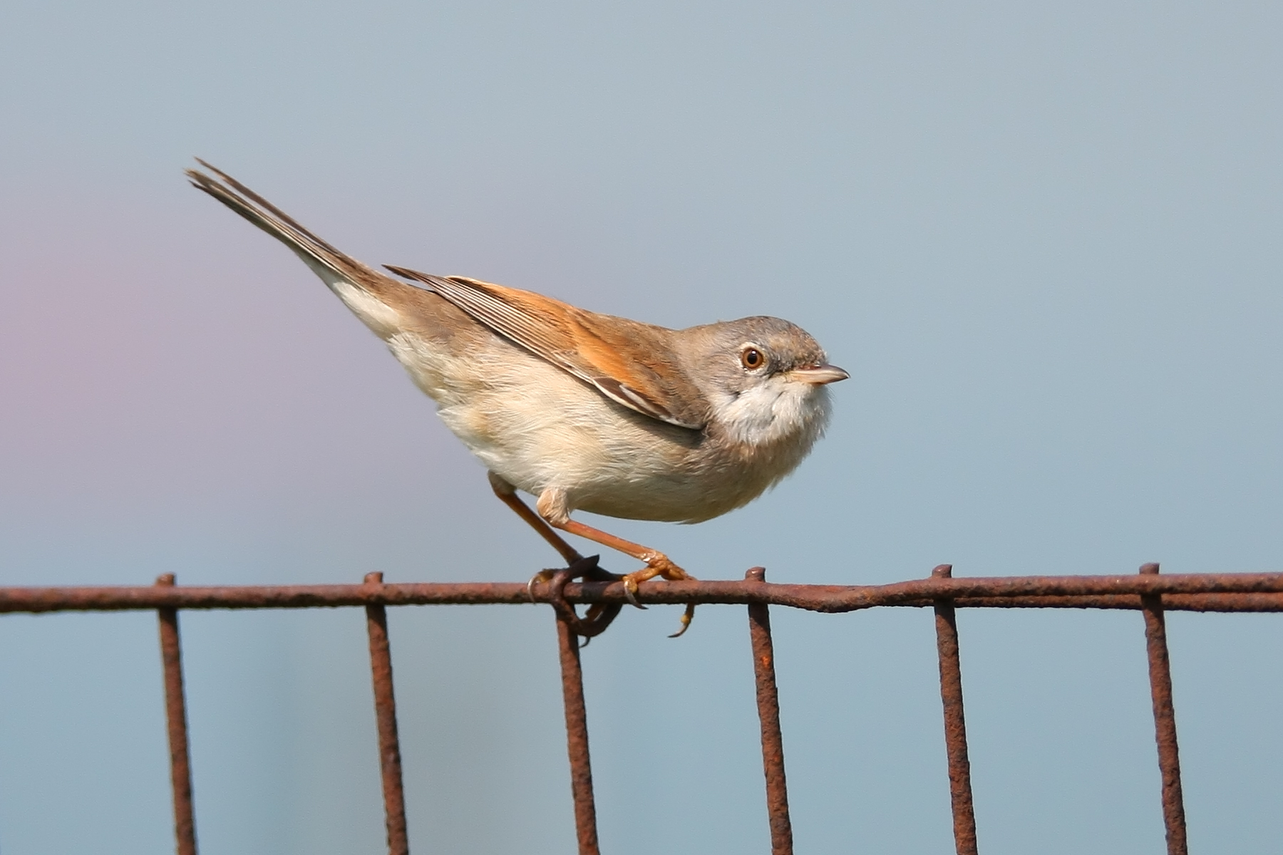 Whitethroat (Sylvia communis)